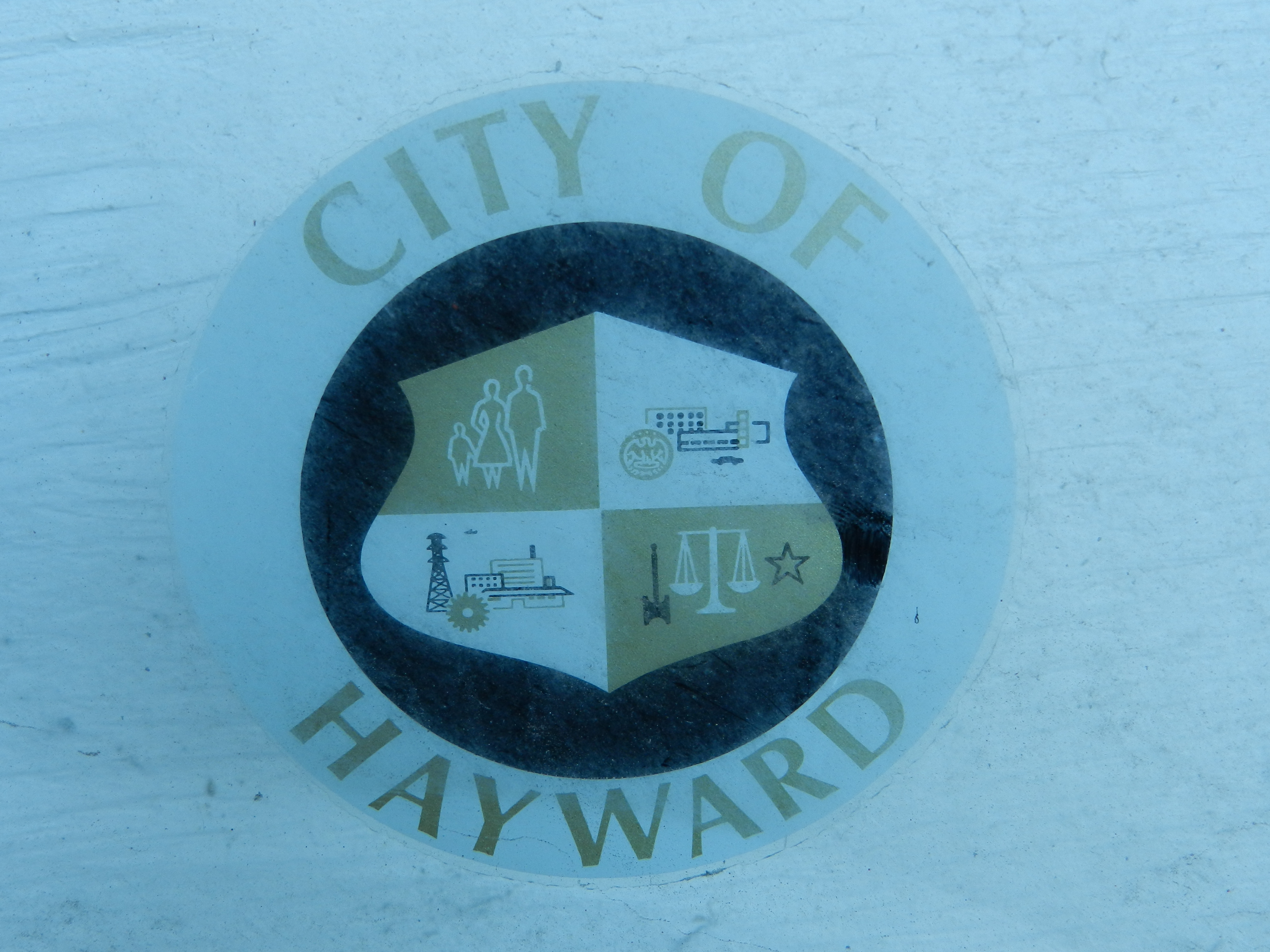 The old logo of the City of Hayward (from the City Center Building)